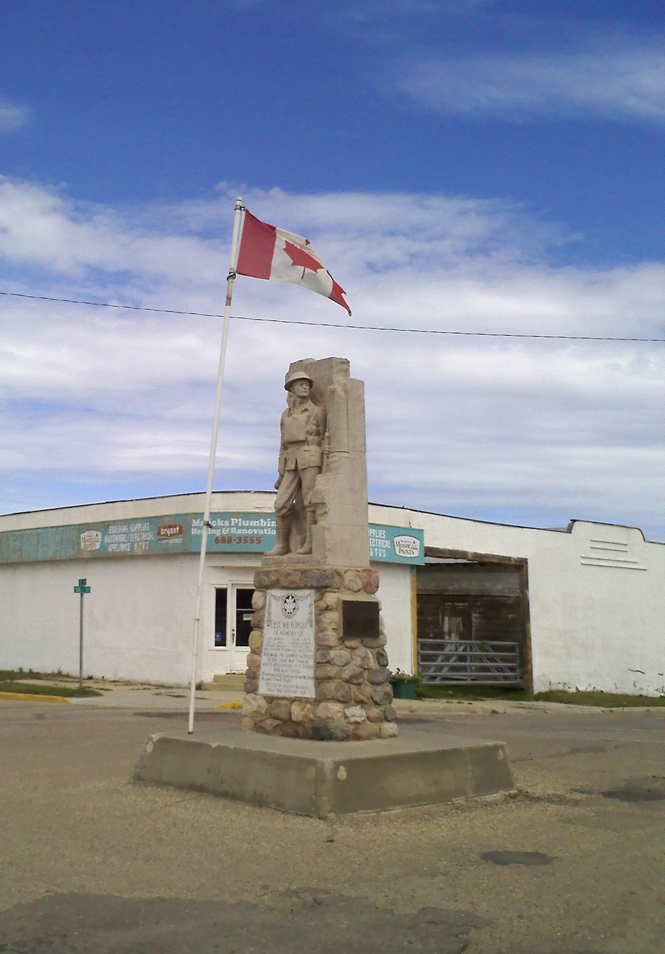 The cenotaph at the highest point, and centre of Holden, Alberta.